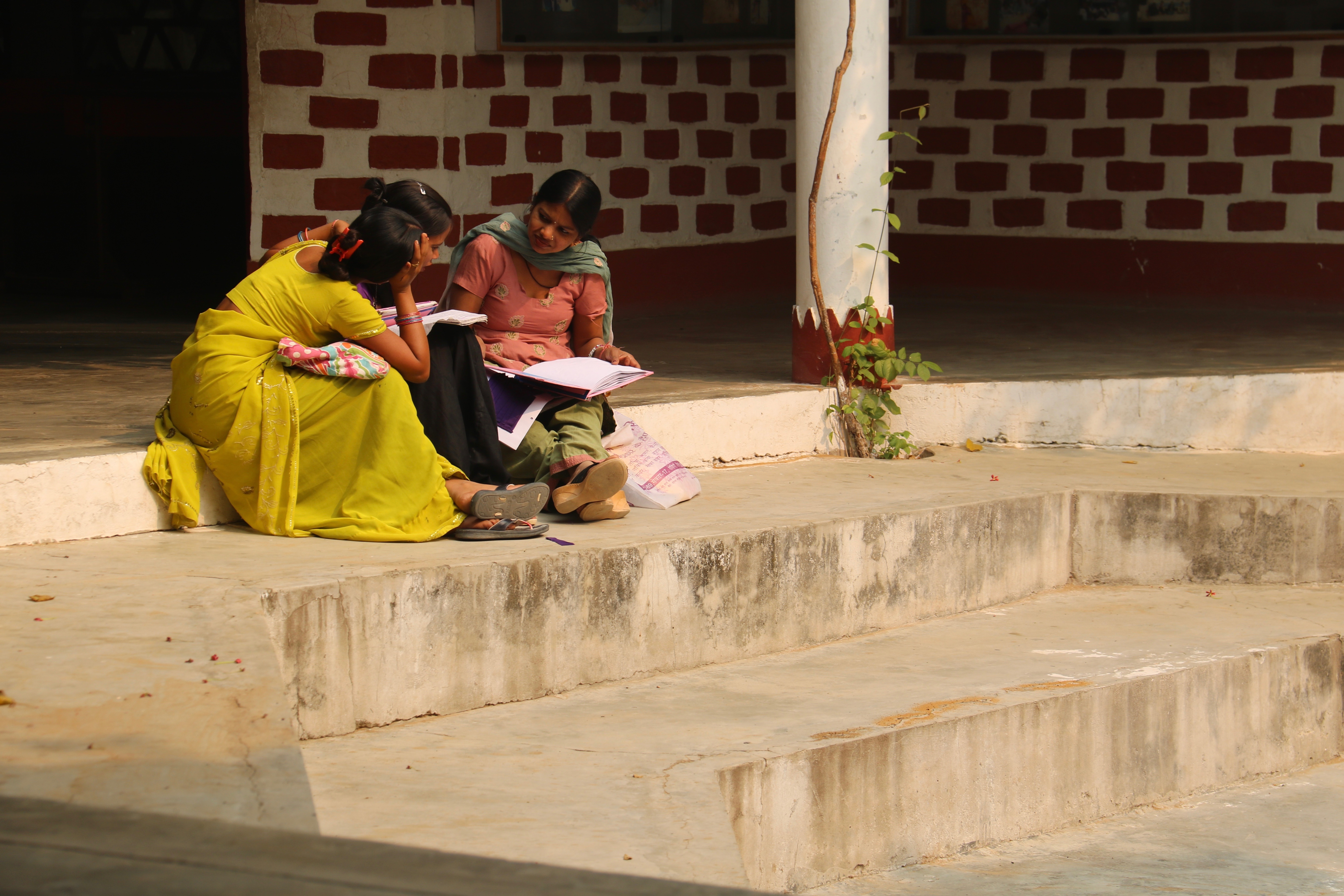 Womans in Navjyoti India Foundation